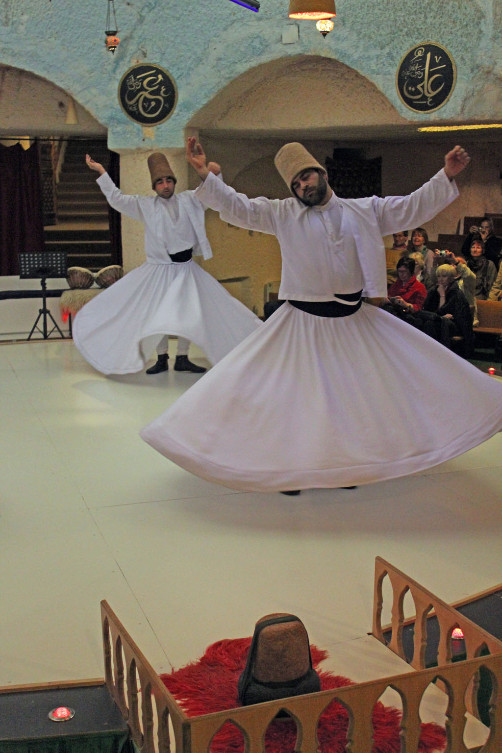 Whireling Dervishes of the Mevlevi order, danse 4